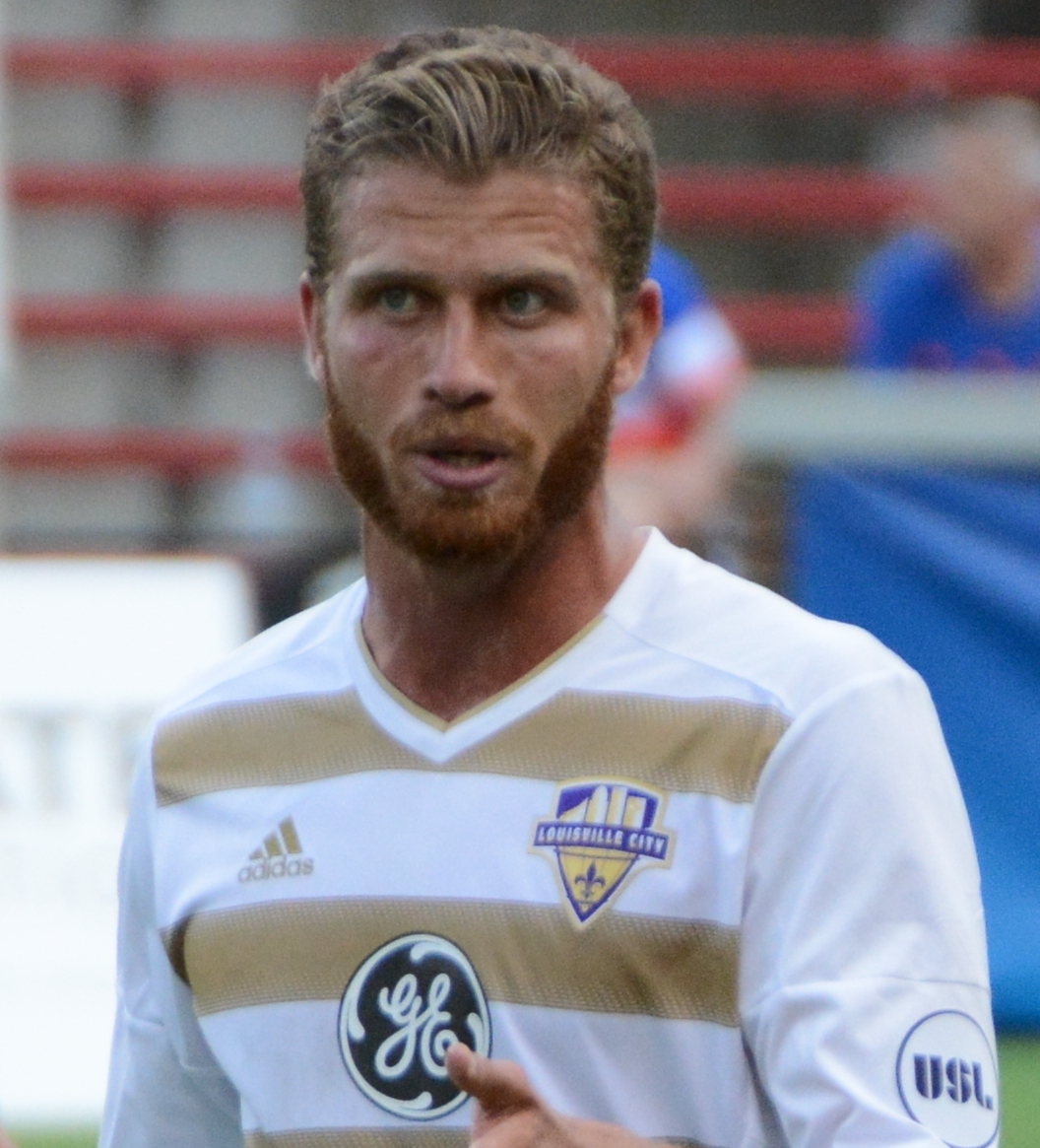 Guy Abend Taken at a Lamar Hunt U.S. Open Cup match between FC Cincinnati and Louisville City FC at Nippert Stadium in Cincinnati, Ohio on May 31, 2017.